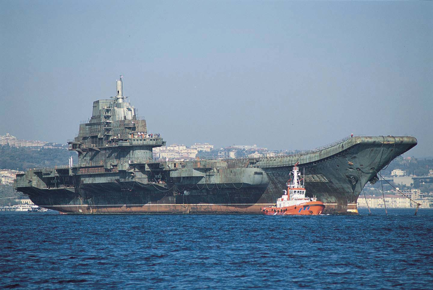 Varyag under tow in Istanbul. Mainland China purchased the former Soviet carrier, Varyag, from the Ukraine in 1998 for about $20 million dollars (US). The Varyag was the newer, sister ship to the Russian Kuznetsov. But the Ukrainian government had never finished the carrier after the fall of the Soviet Union and had tried to sell it to various concerns. As a result, the carrier fell into a state of disrepair. The Chinese bought the carrier and indicated that the holding company that had purchased it planned to tow it to Red China and make it a floating casino.